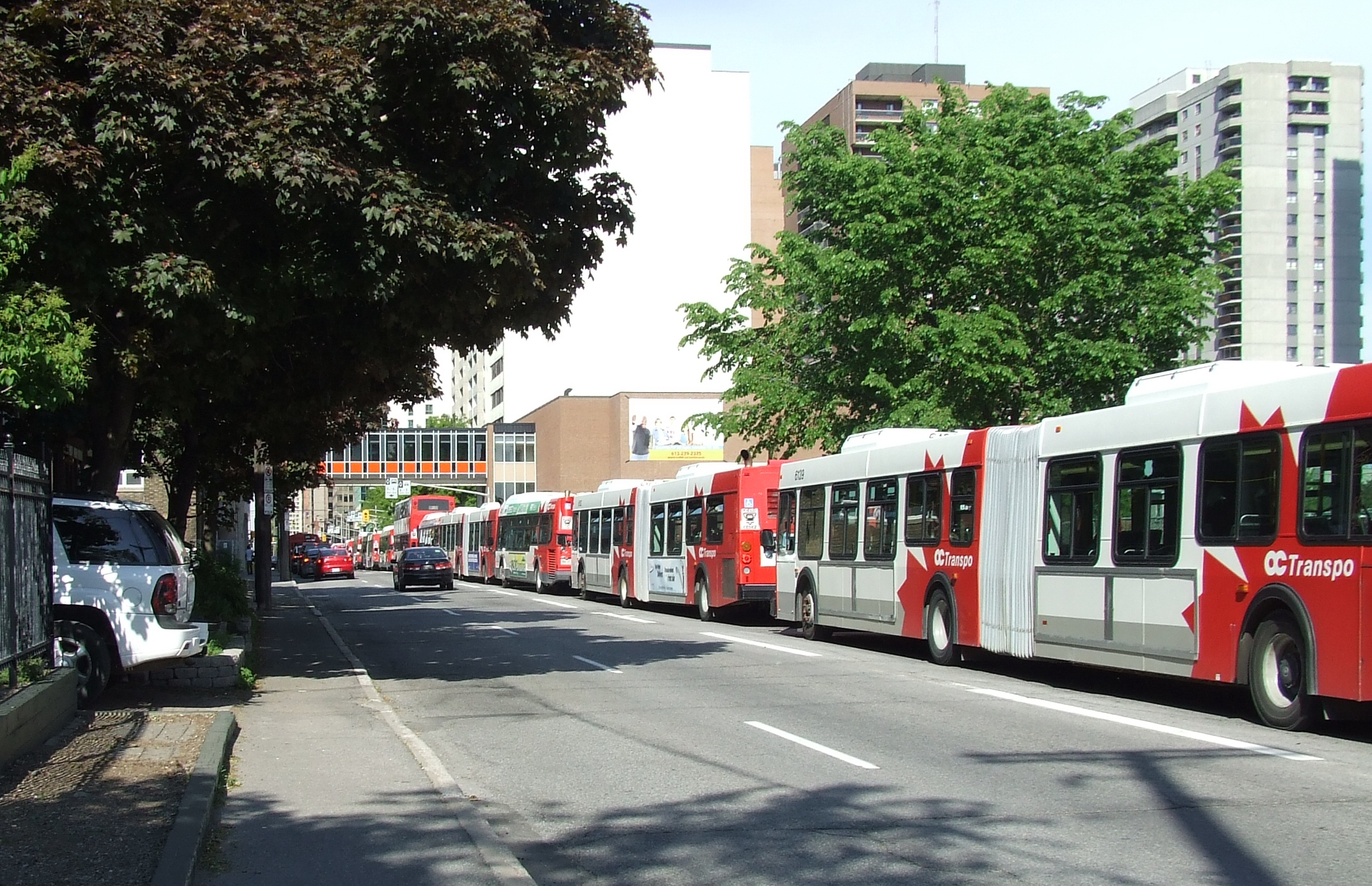 Slater street in Ottawa, looking east.